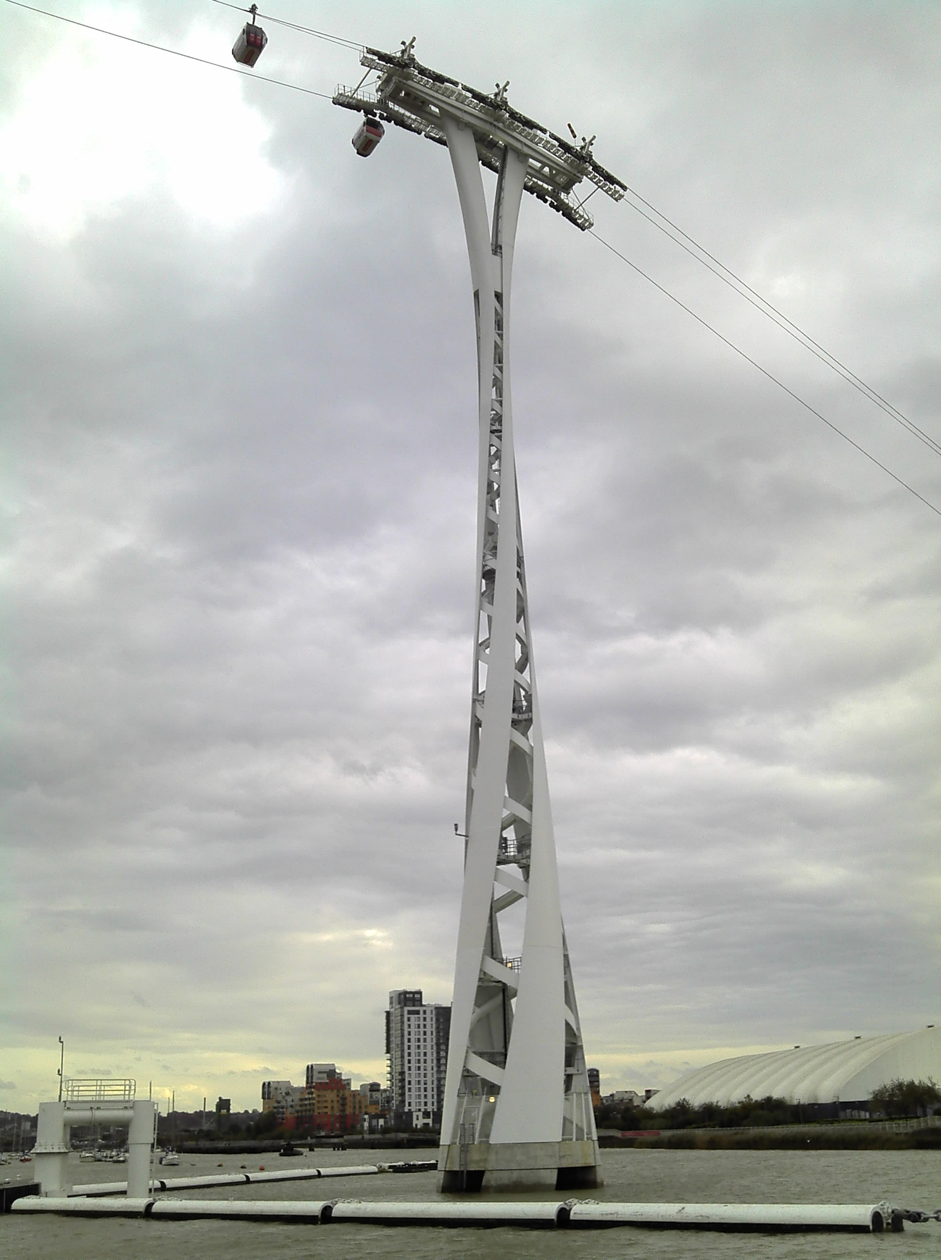 A support tower the the Emirates Air Line cable over the Thames near Greenwich.